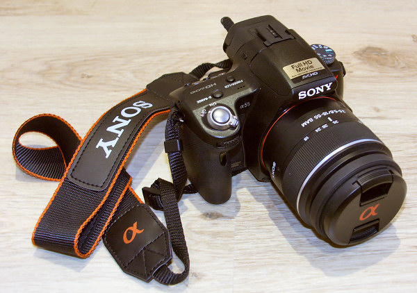 Sony Alpha 55 with Sony DT 18-55 mm F/3.5-5.6 SAM kitlens